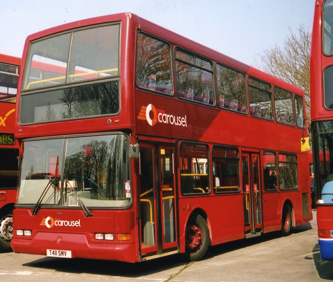 An East Lancs Lolyne operated by Carousel Buses of High Wycombe, at the 2007 Cobham bus gathering at Longcross test track Arriva 436 13:10, 5 April 2007 (UTC)